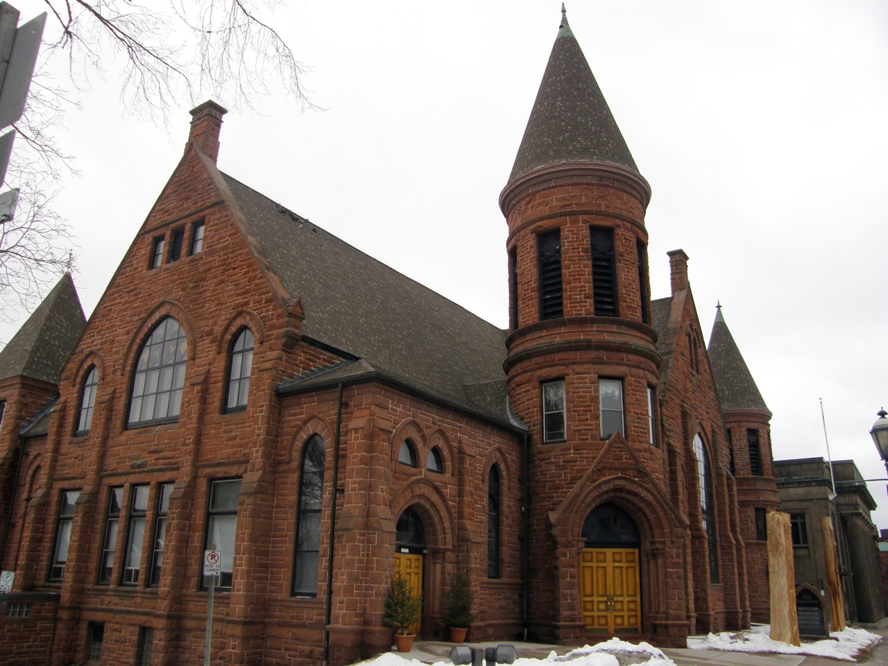 Church in Amherst, Nova Scotia, Canada